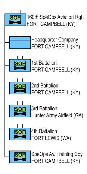 Structure 160th Special Operations Aviation Regiment (Airborne).